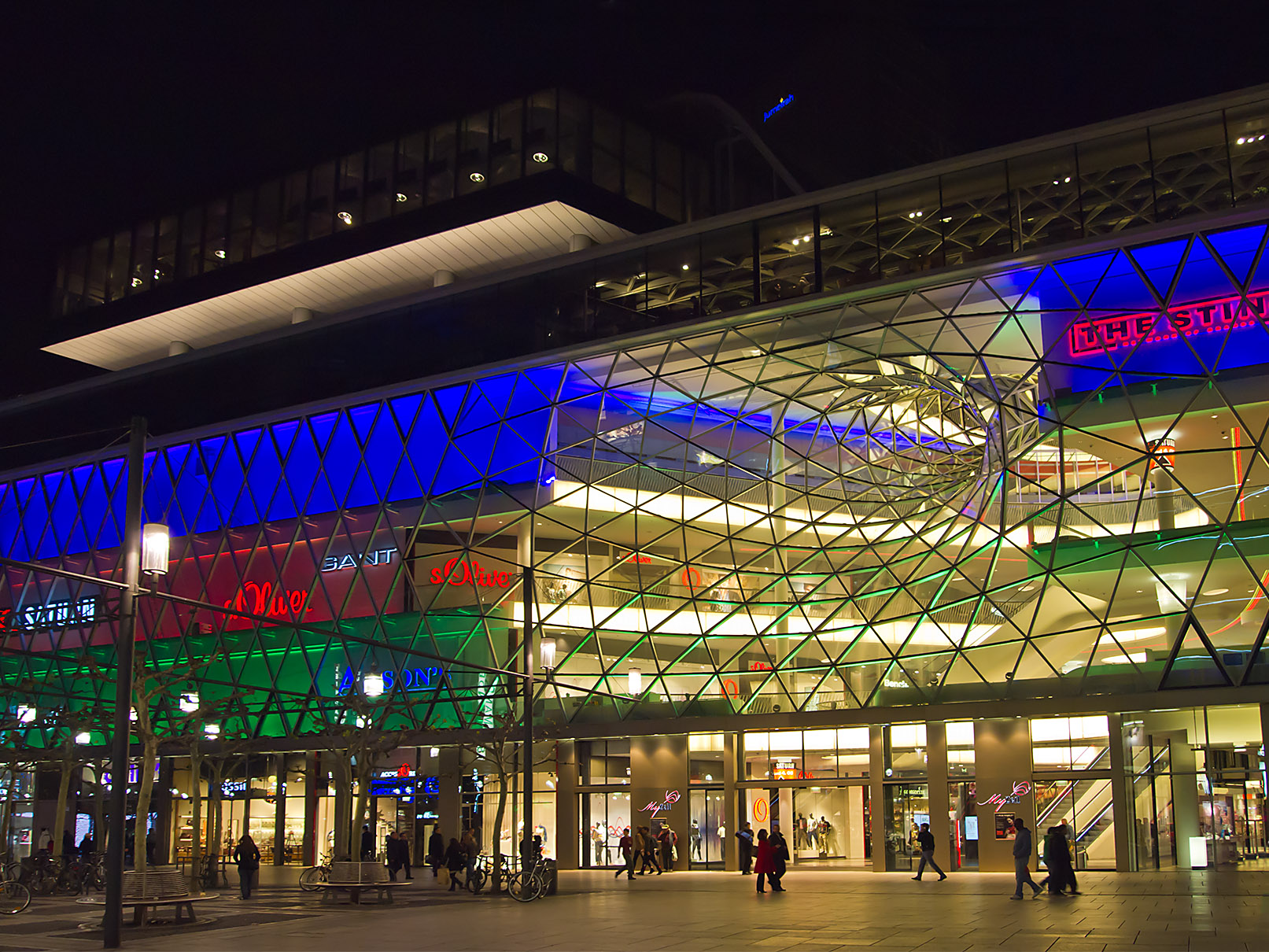 Shopping mall MyZeil in the city center of Frankfurt